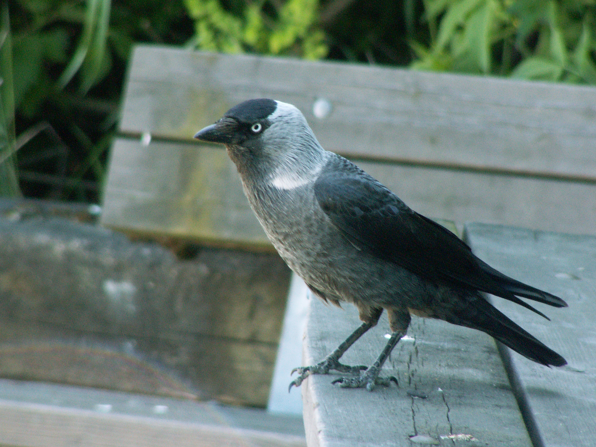 A Jackdaw in Munkedal, Vastra Gotaland, Sweden.